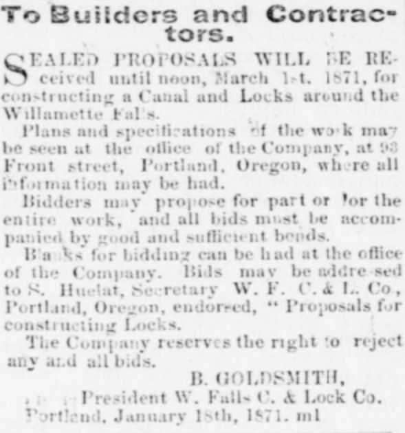 Solicitation for bids for work on the Willamette Falls Canal and Locks.